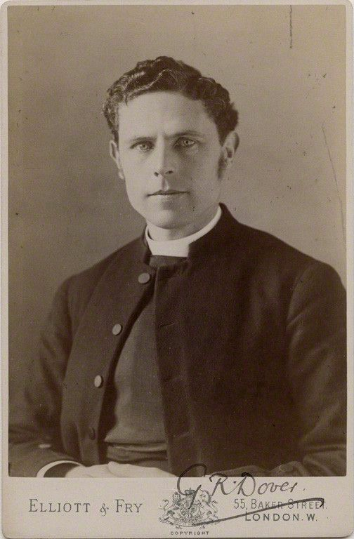 George Rodney Eden (1853-1940), Bishop of Dover until 1897, then Bishop of Wakefield.